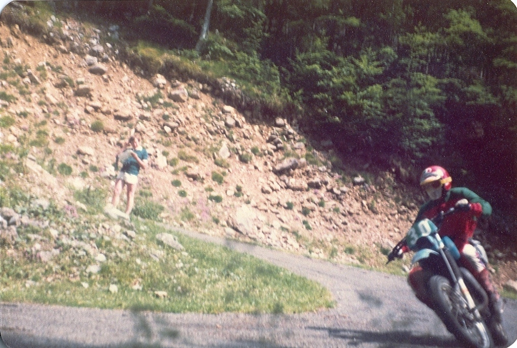 Rallye Des Pyrenees also known as the Circuit Des Pyrenees and formerly the Pau-San Sebastian Rally. Competitor takes a hairpin bend in what seems to be Gourette .